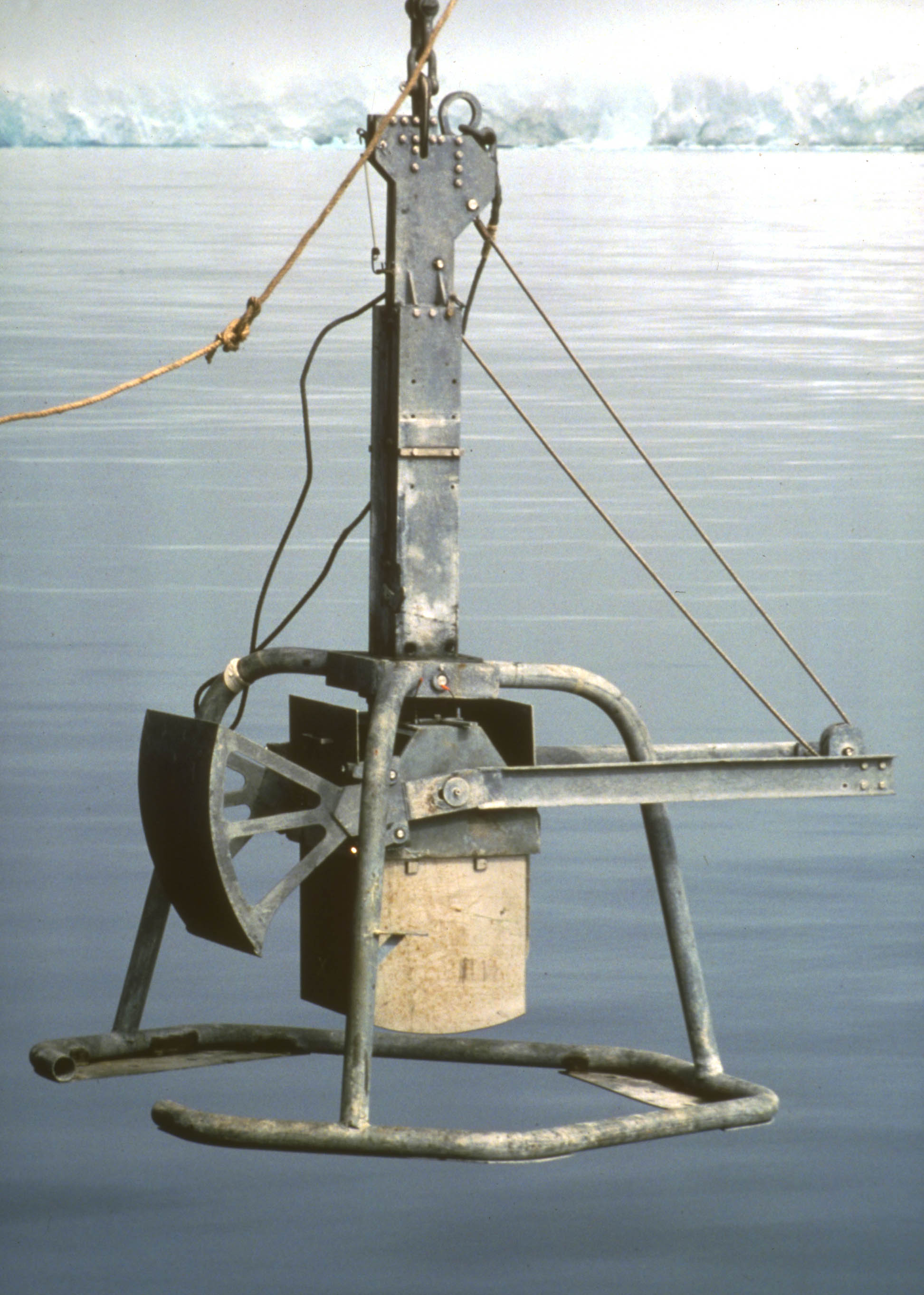 Giant box corer (spade corer); used on research vessels to take undisturbed surface samples (50 x 50 cm, 50 cm deep) from ocean floor sediments. Developed by USNEL (United States Navy Electronics Laboratory) during the nineteen seventies. This image shows the deployment of the corer from the research vessel POLARSTERN in the Southern Ocean off the shelf ice edge.